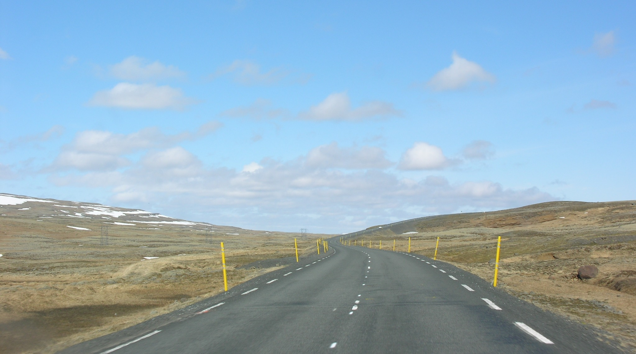 Iceland, views along road Road 1 in Iceland (Hringvegur). Picture is geocoded manually; if someone can contribute to the accuracy, please do so.